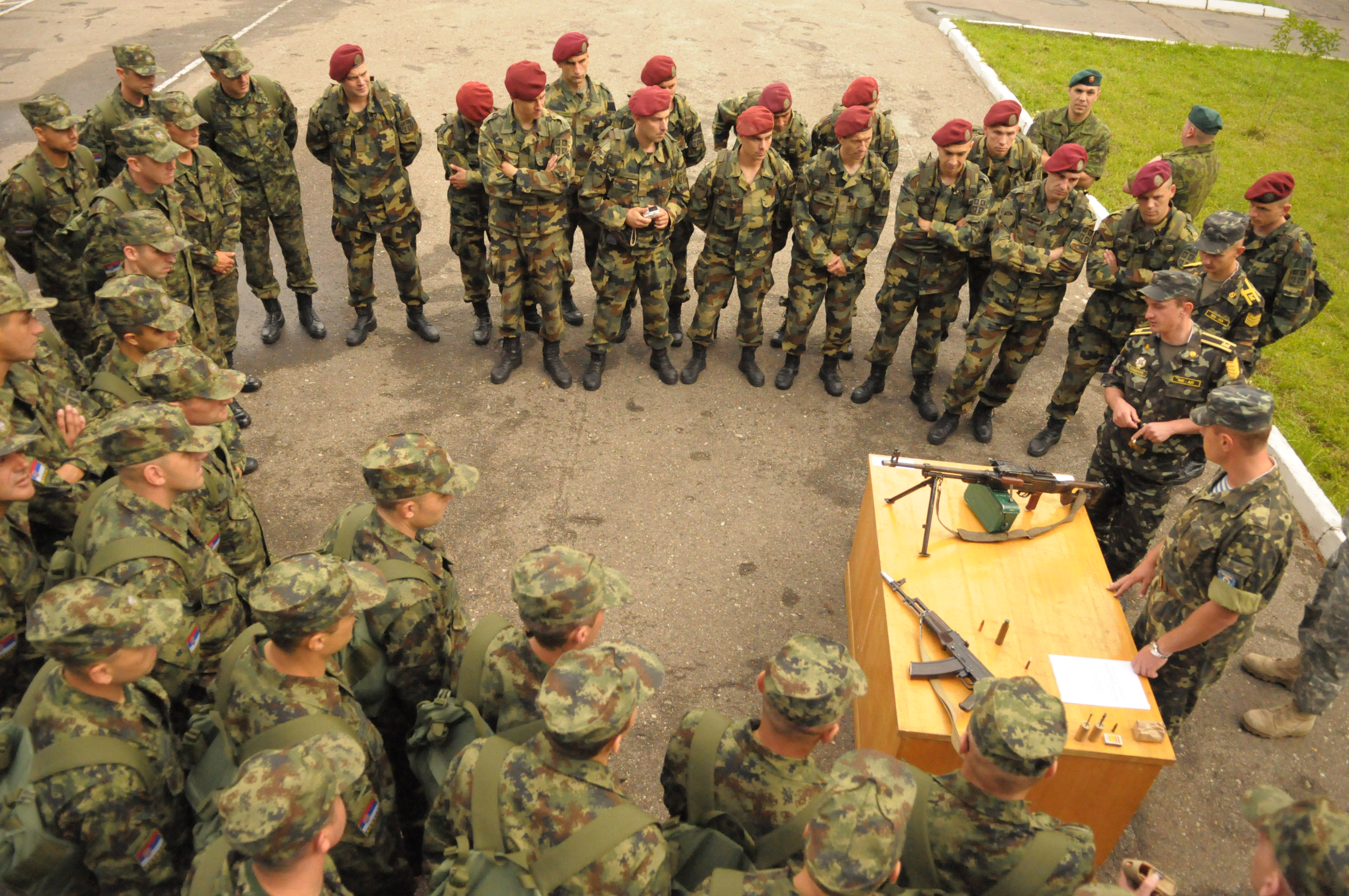 Yavoriv, Ukraine (July 24, 2011)-- Ukrainian soldiers train the troops of other nations on Ukrainian equipment for Exercise Rapid Trident 2011. Rapid Trident is a multi-national airborne operation and field training exercise (FTX) in support of Ukraine’s Annual Program to achieve interoperability with NATO. (U.S. Army photo by Staff Sgt. Brendan Stephens/Released)